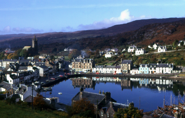 A view over Tarbert, in Argyll and Bute, Scotland, United Kingdom.